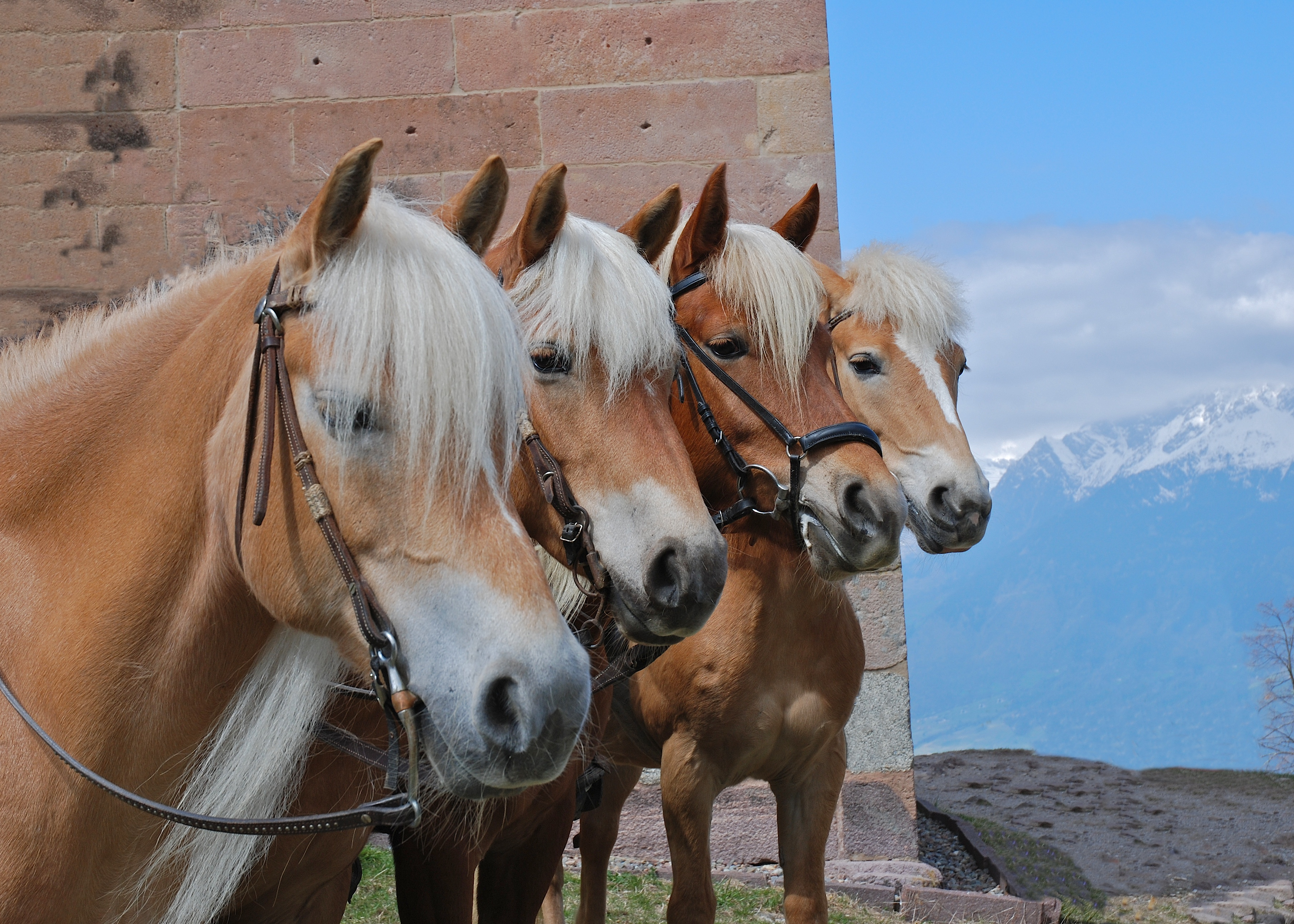 The Haflinger is named after these mountain horses.